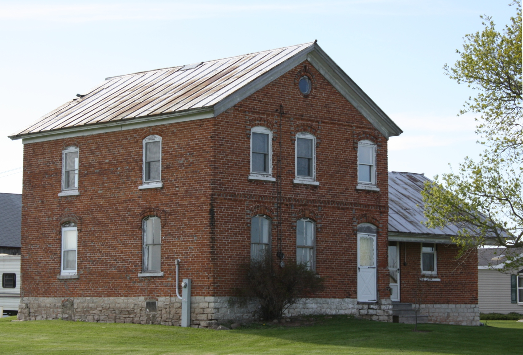 The Joachine J. Falque House. It is listed on the National Register of Historic Places.